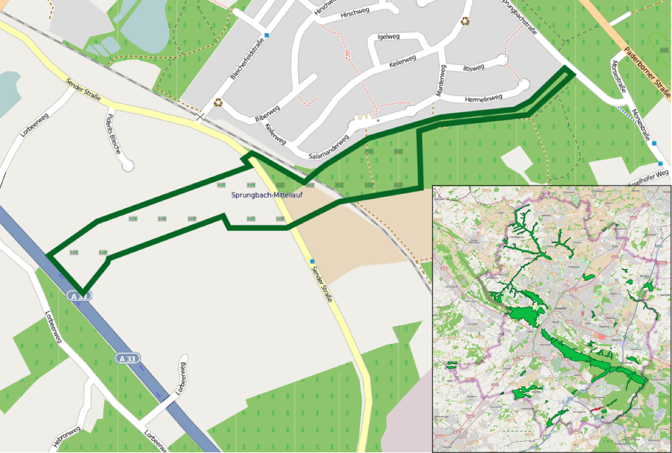 Bielefeld - Nature reserve Sprungbach-Mittellauf - overview mapNumber and borders of nature reserves are subject to frequent change. In order to facilitate reproduction of this map from openstreetmap, the following data is stored here: export boundaries: north: 51.94; west: 8.57; east: 8.594; south: 51.93, mapnik svg, scale 1:10.000 nature reserve boundary stroke weight 10.0; nature reserve stroke color: R 5, G 102, B 36; municipality border stroke weight: as found